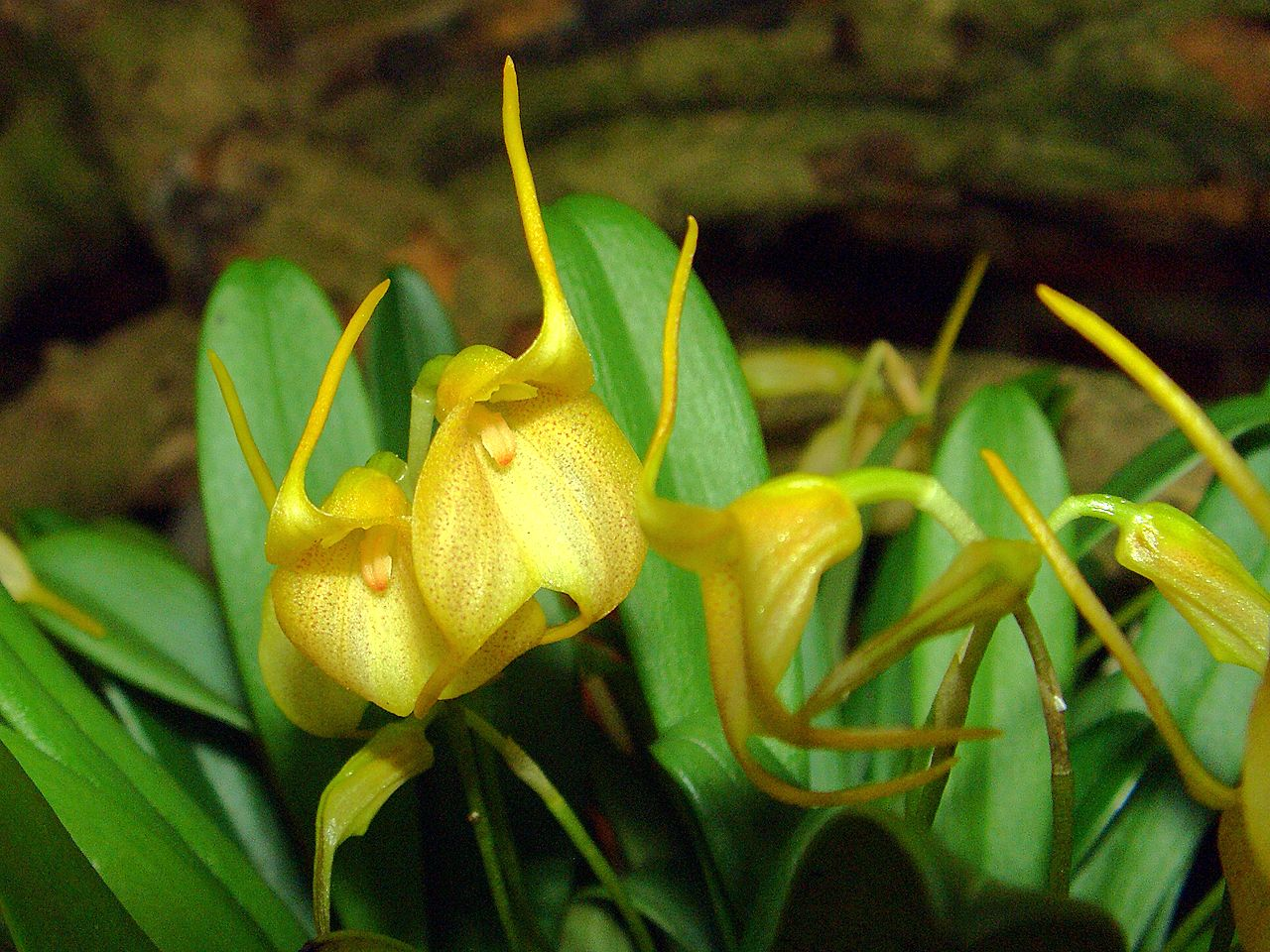 Masdevallia floribunda - flowers